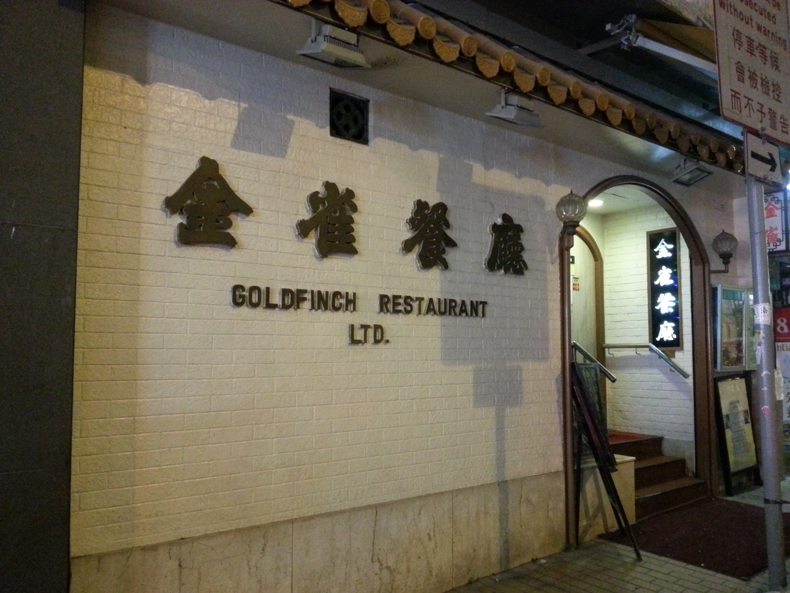 Goldfinch Restaurant, at Lan Fong Road, Causeway Bay, Hong Kong 2015-09-20